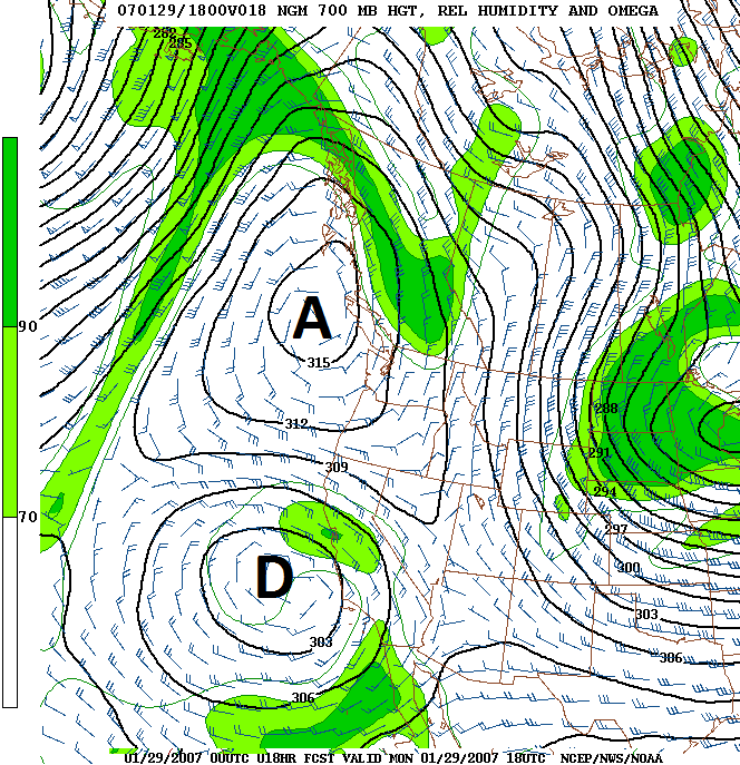 Zoom on a Rex block in the atmospheric circulation.